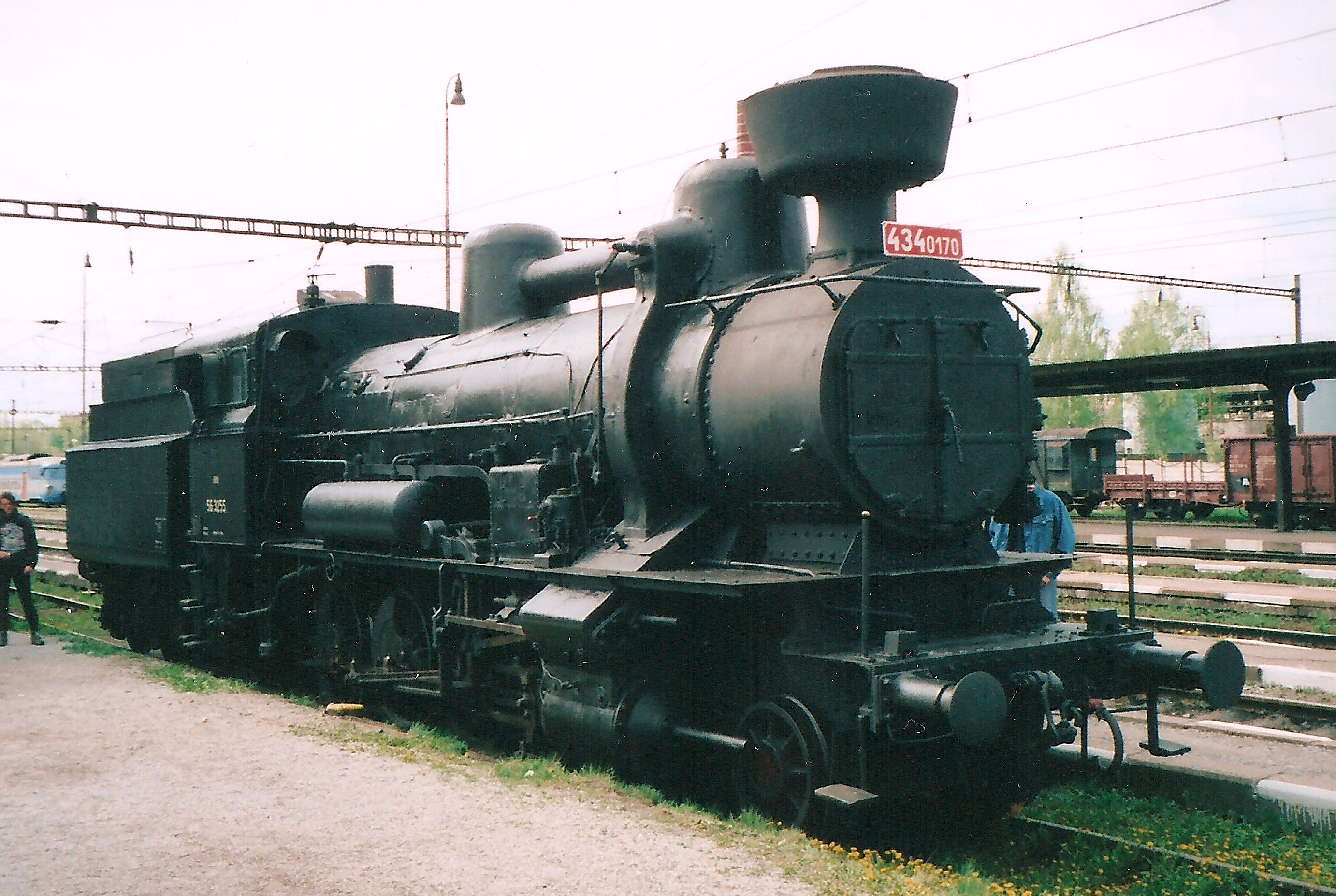 170.666 wih the fictive imatriculation ČSD 434.0170 in Benešov u Prahy